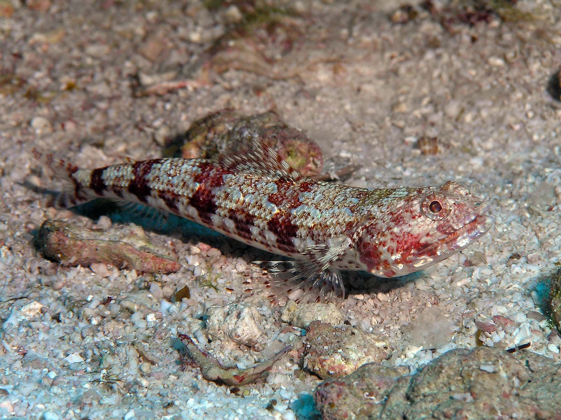 Lizardfish (Synodus variegatus) in a typical attitude on the bottom. Flower Garden Banks National Marine Sanctuary. Gulf of Mexico.